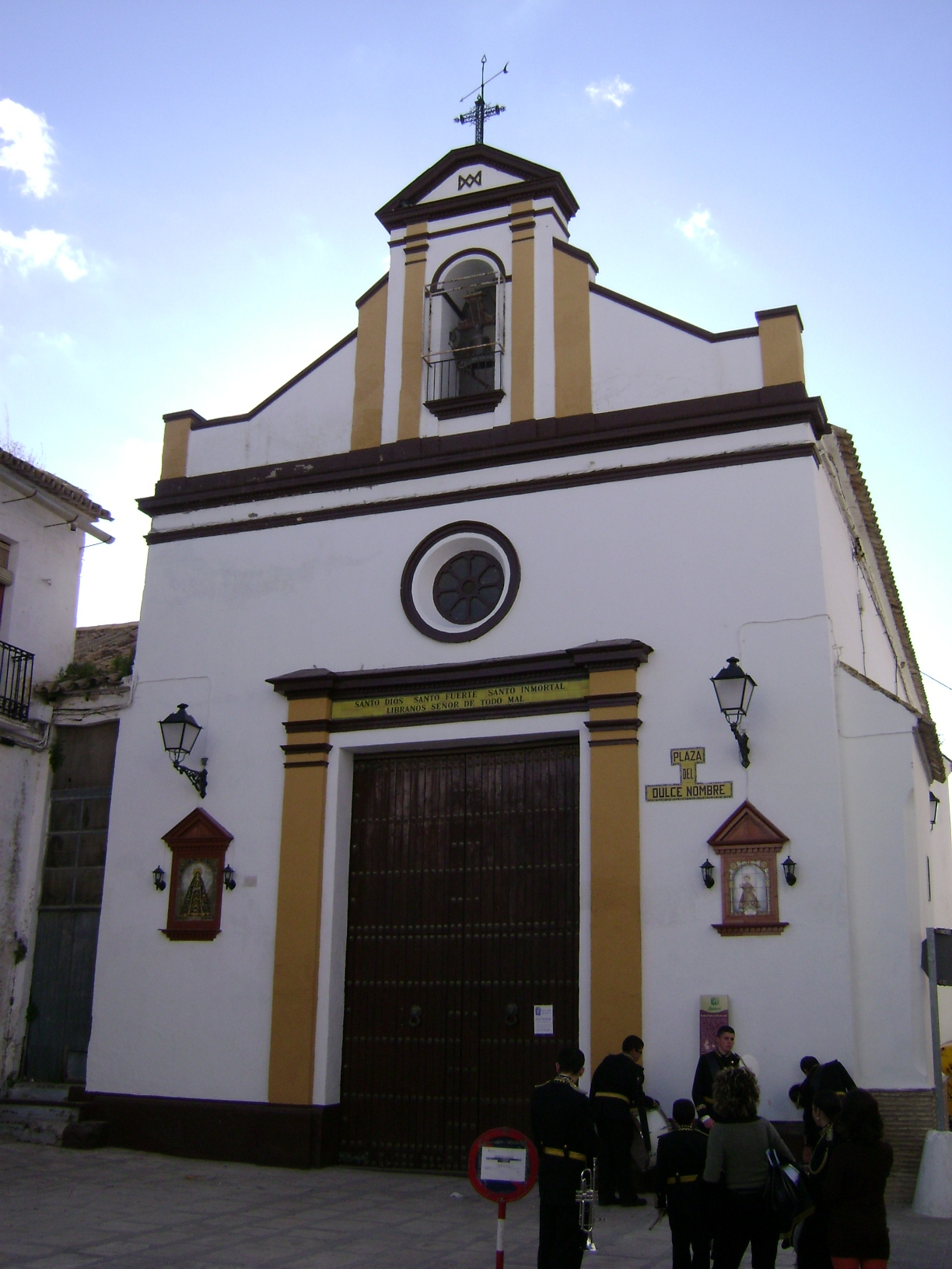 Dulce Nombre's church in Puente Genil